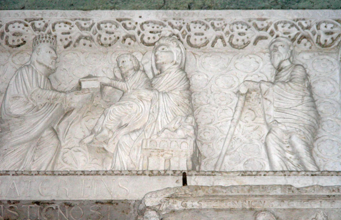 Italy, Pistoia, church of Sant'Andrea (St.Andrew), front, figured frieze of the main door (Three Kings)